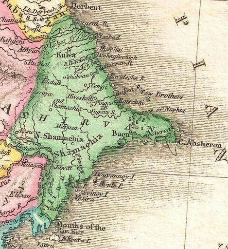 A rare and important 1818 map of Persia by John Pinkerton. Depicts from the Black Sea eastward as far as the Indus Valley, extends north to the Aral Sea and South to the Persian Gulf and the Arabian Sea. Includes the modern day countries of Iran and Afghanistan, as well as parts of adjacent Pakistan, Kuwait, Iraq, Turkey and Arabia. Notes both political and physical geographic elements, including rivers, mountains, under sea dangers, various tribal regions, cities, ruins, and canals. In particular, notes the ruins of both Babylon and Persepolis. Drawn by L. Herbert and engraved by Samuel Neele under the direction of John Pinkerton. The map comes from the scarce American edition of Pinkerton’s Modern Atlas, published by Thomas Dobson & Co. of Philadelphia in 1818.